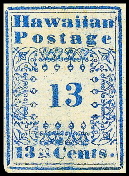 Stamp of Hawaii, 13 c., 1851